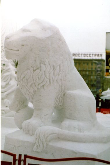 Siberian Festival of Snow Sculptures (Novosibirsk). Snow Lion (Saint Petersburg authors), 2007